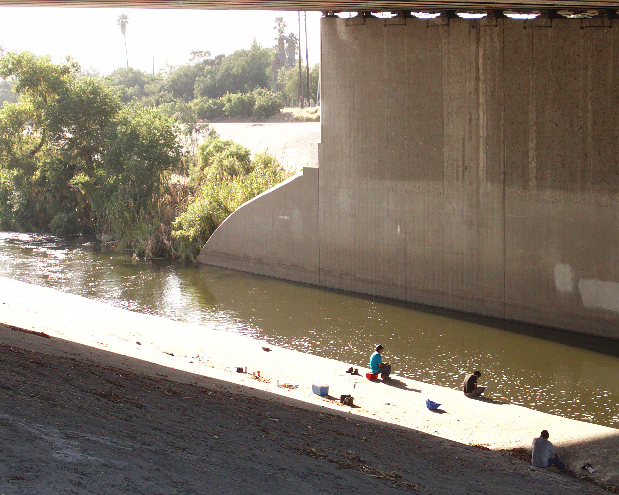 People fishing in the Elysian Valley River Recreation Zone section of the Los Angeles River on Memorial Day, beneath California State Route 2.